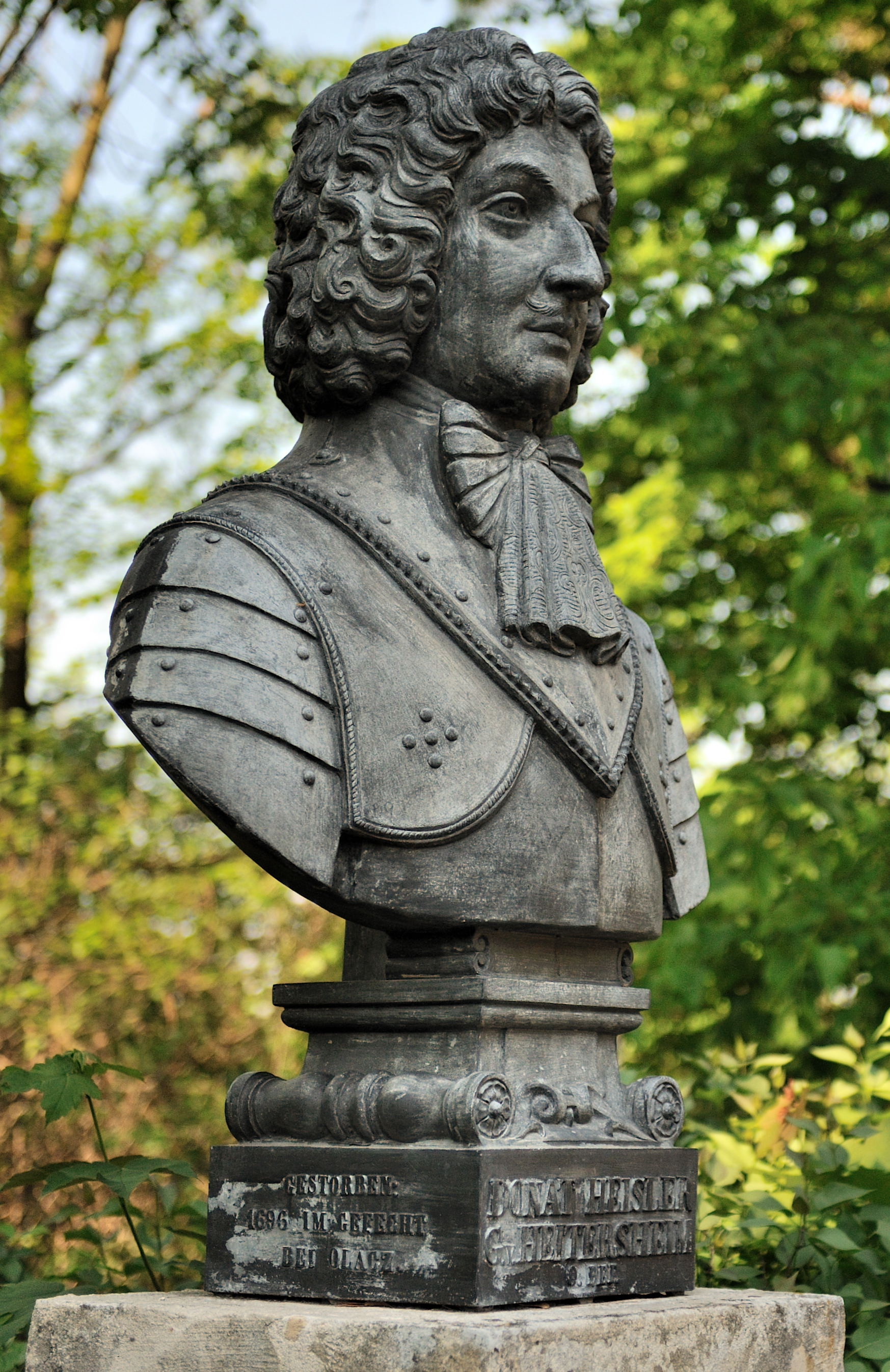 Bust of Donat John Count Heissler of Heitersheim at Heldenberg Memorial in the heroes alley